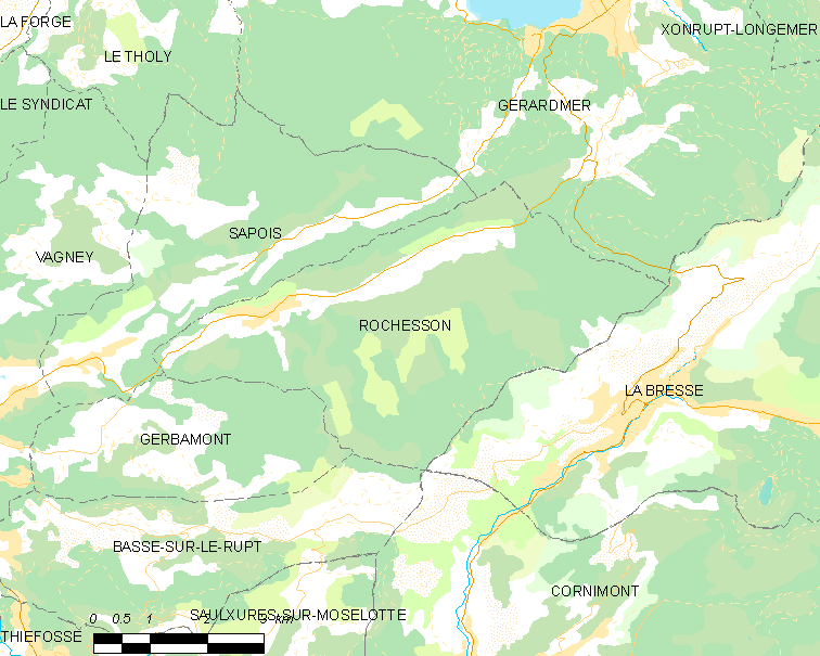 Map of French municipality Rochesson